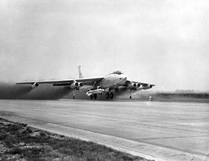 Boeing B-47 Stratojet on takeoff with BOLD ORION air-launched ballistic missile on board.